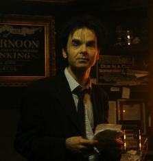 Thomas Truax at the Harley Robert George Saull & the Purgatory Players and the Listeners